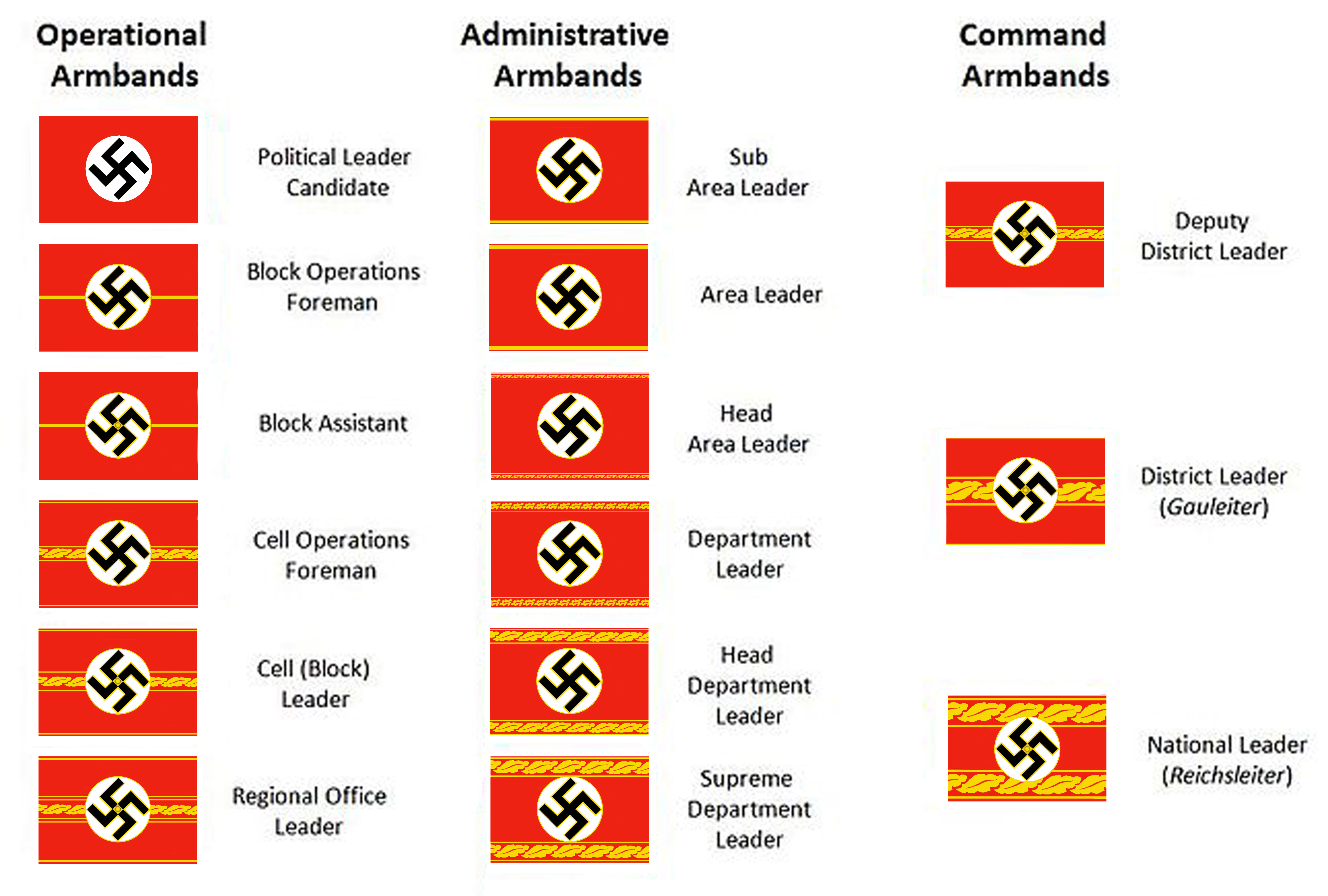 Screenshot showing World War II era Nazi Party Armbands. Created with Mircosoft Powerpoint & Windows Paint (Windows 7)